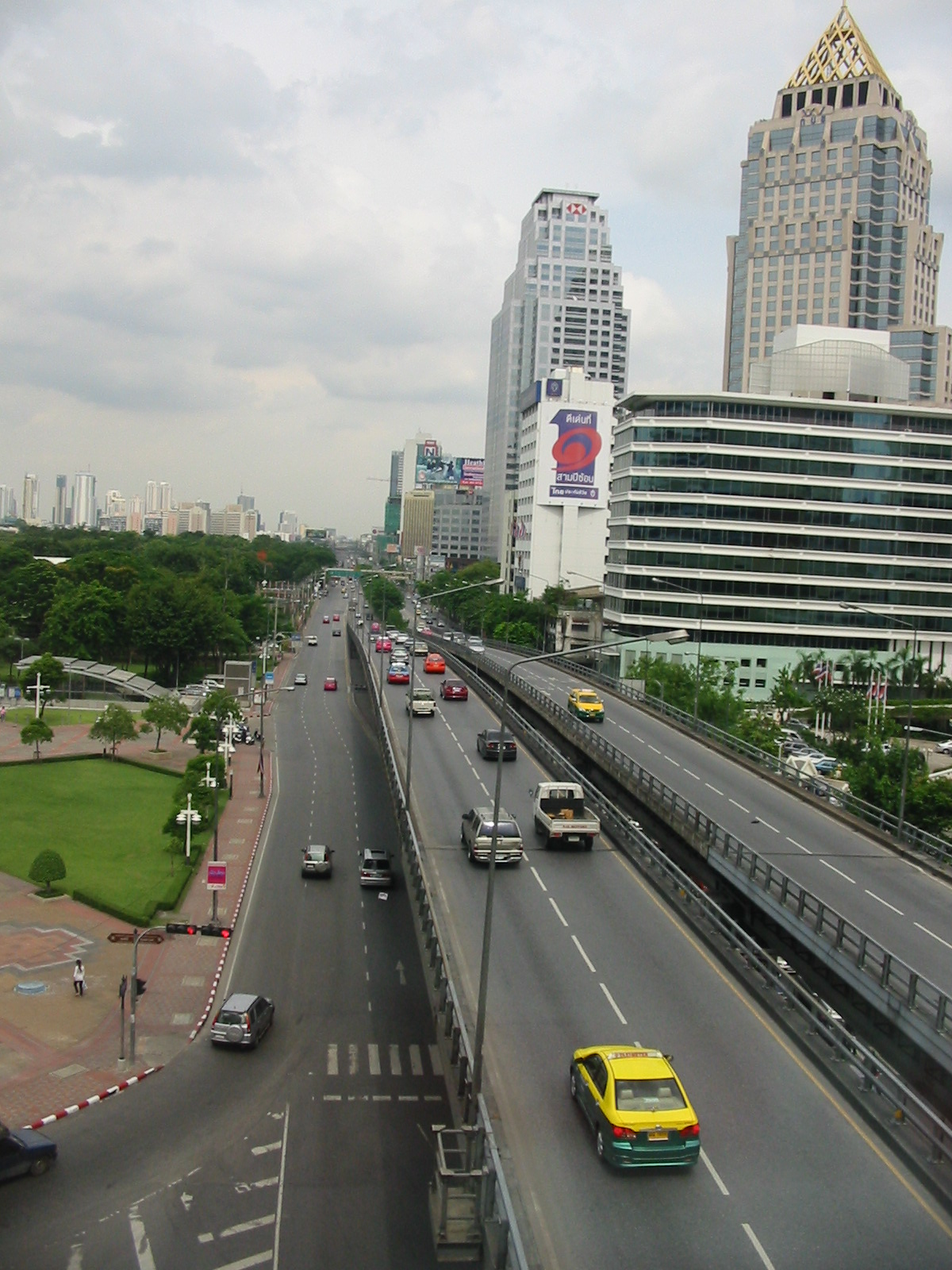 Thanon Rama IV